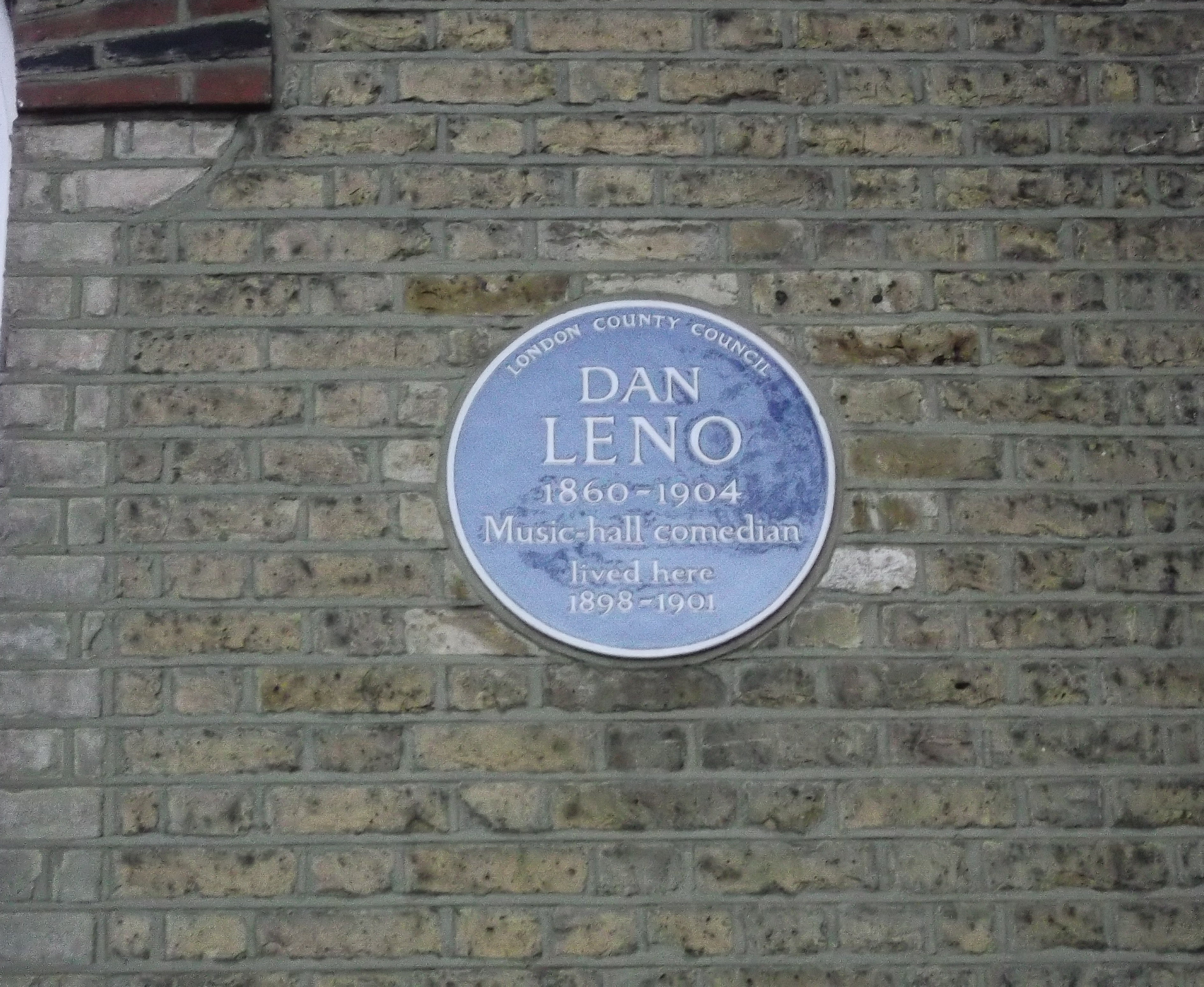 Dan Leno's Blue Plaque on 56 Ackerman Road.